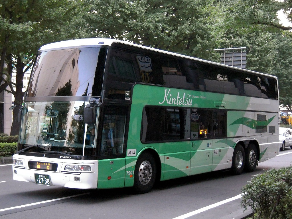 Kintetsu bus Mitsubishi Fuso Aero King (BKG-MU66JS),Highway bus "Forest"(Osaka-Sendai)